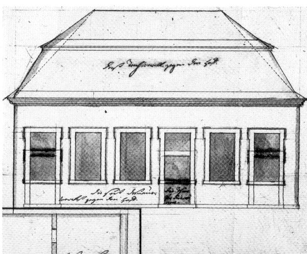 Synagogue of Heidelberg in the "Zur Blauen Lilie" House - 1714